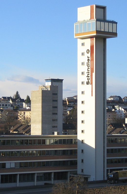 Elevator test tower at Schindler head office in Ebikon, Luzern, Switzerland.